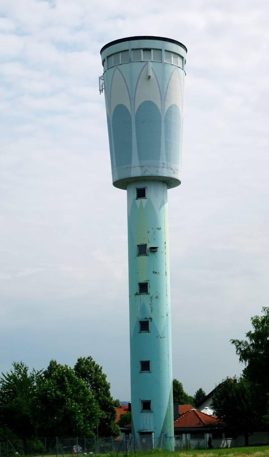 Look from the neuberg to the watertower